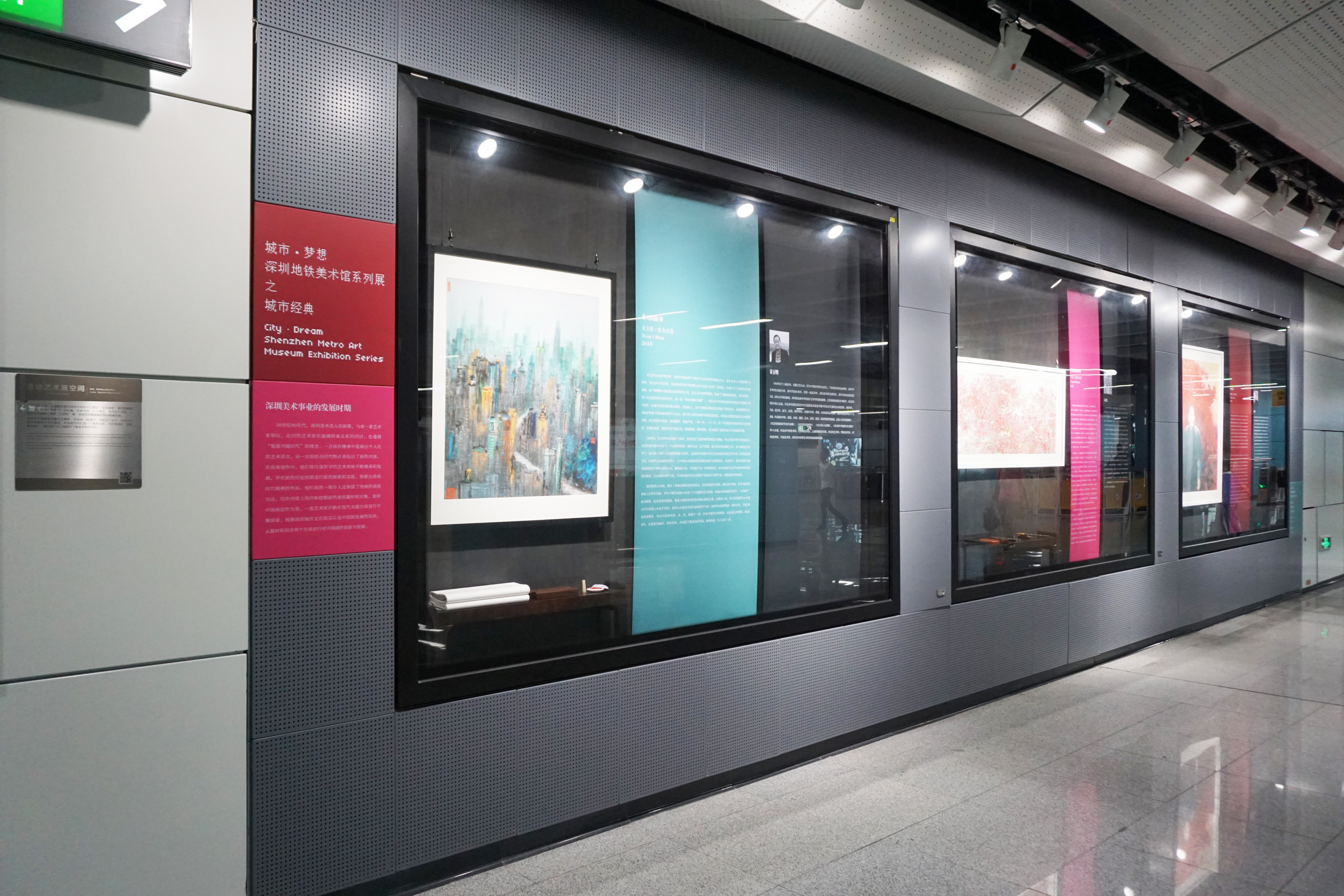 Huaqiang South Station in Futian District, Shenzhen.